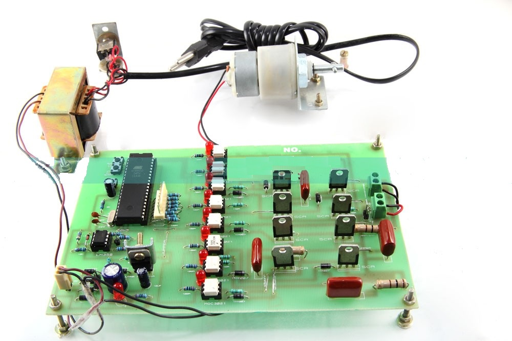 Прямоходовий перетворювач з використанням тиристора